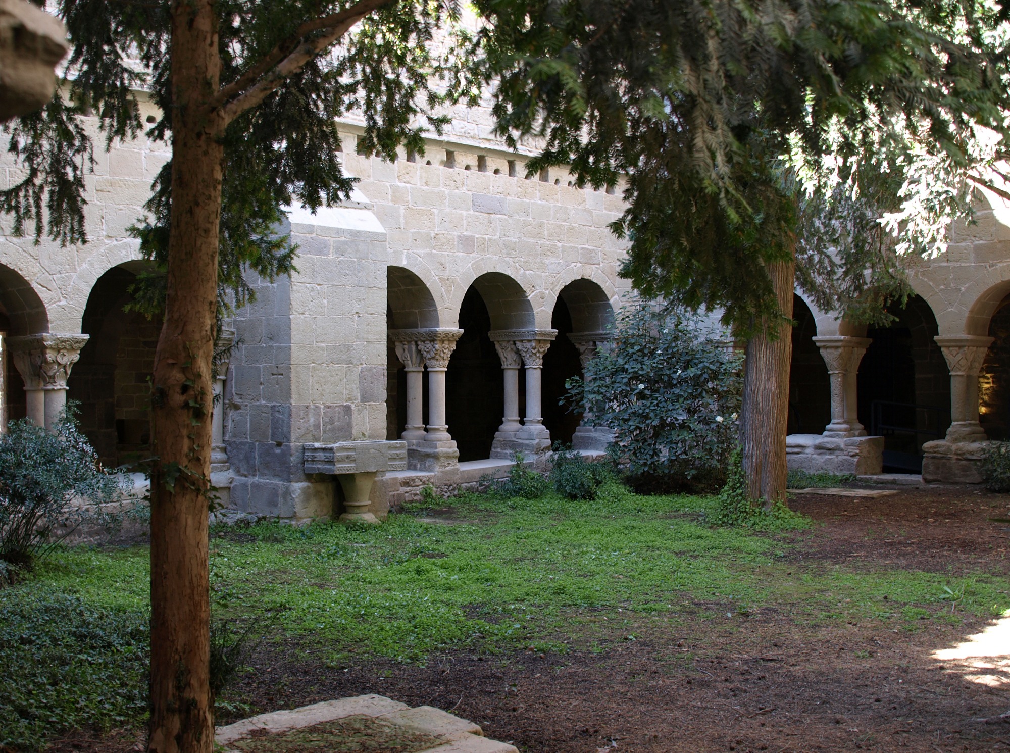 Cloister of Sant Benet de Bages (Bages, España)